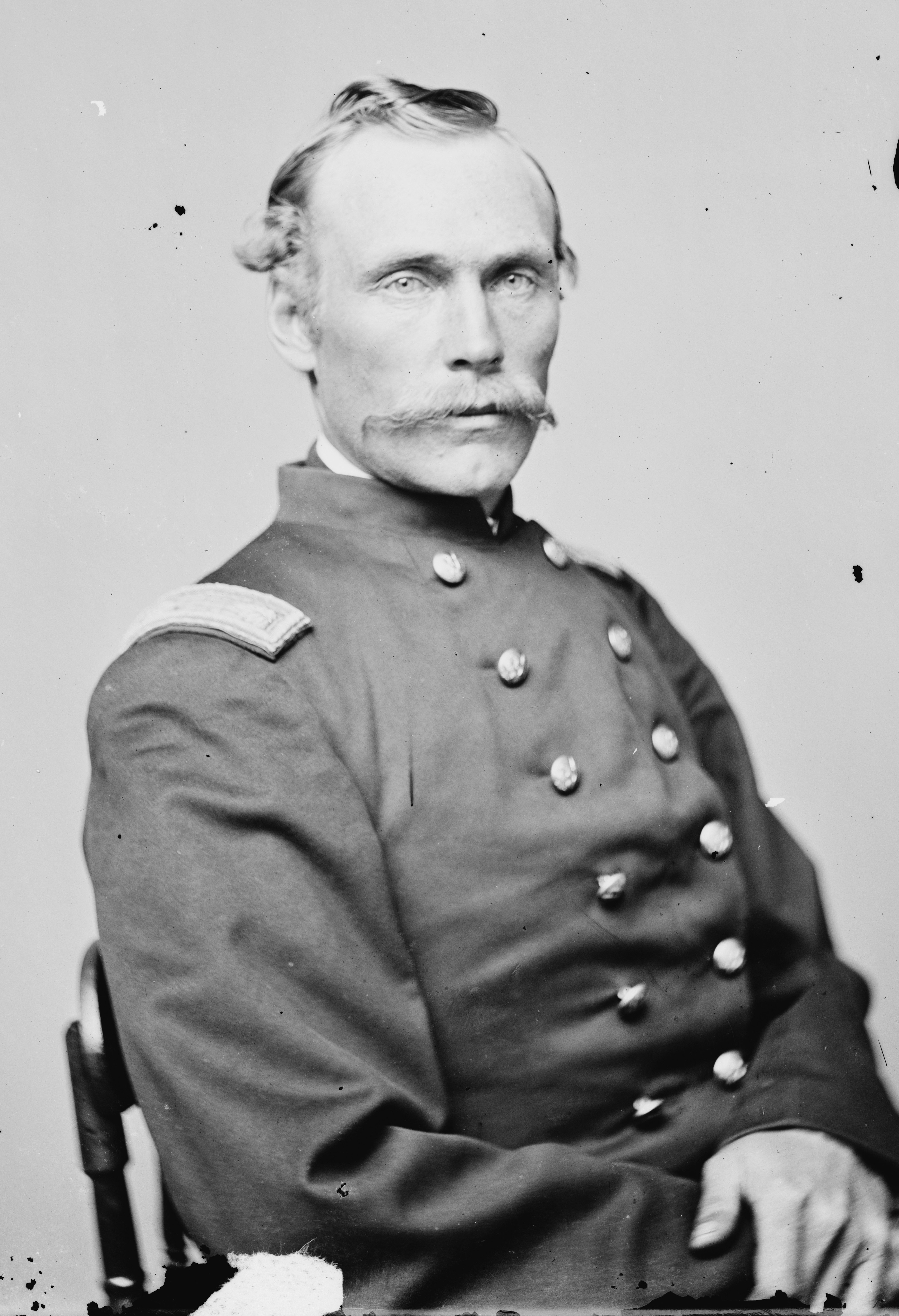 Title: A.W. Preston, 1st Vermont Physical description: 1 negative